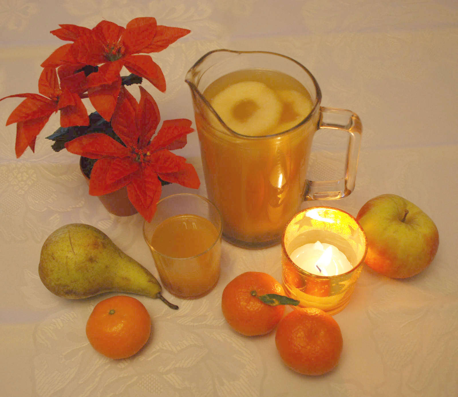 Cocktail with wine, Cup-wine